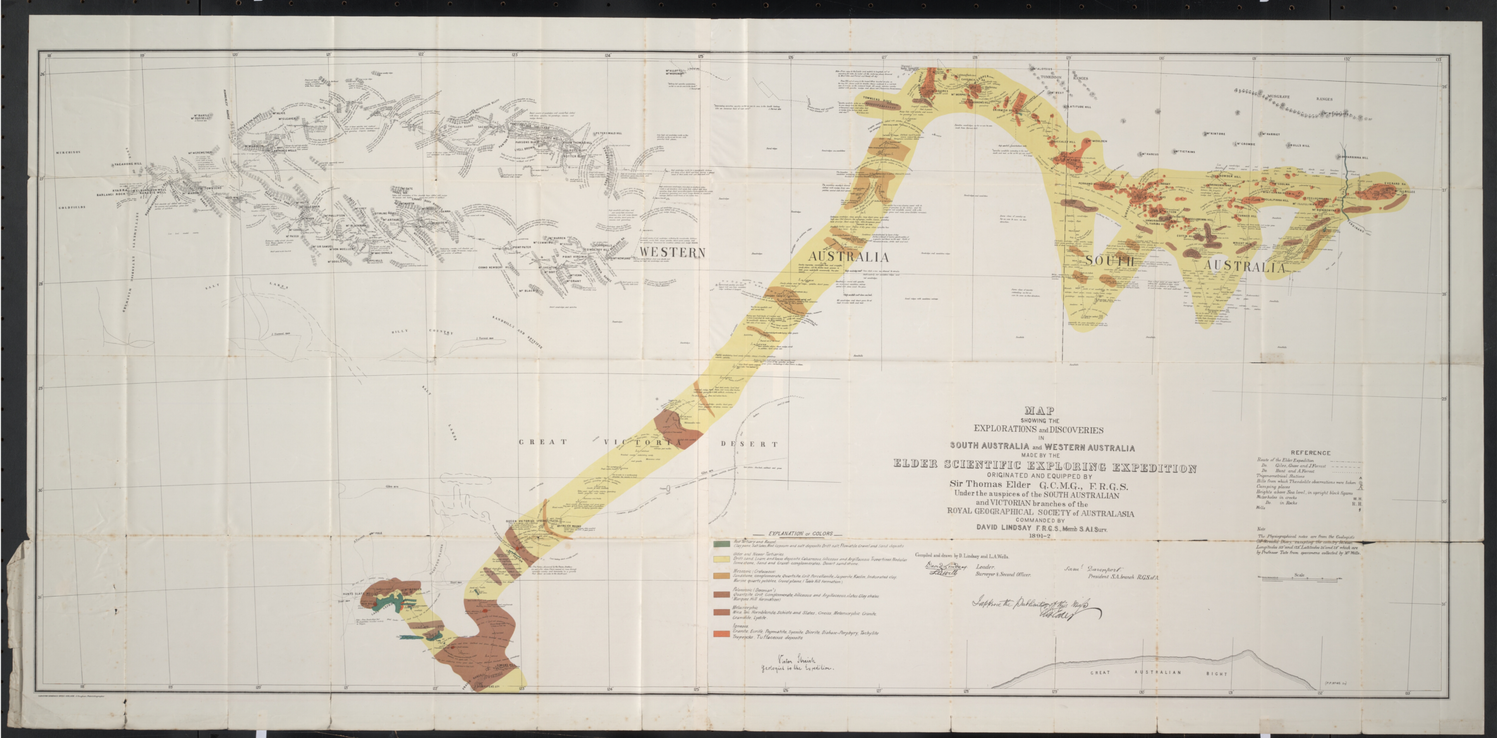 Map showing the explorations and discoveries in South Australia and Western Australia made by the Elder Scientific Exploring Expedition : originated and equipped by Sir Thomas Elder ... commanded by David Lindsay 1891-2 / compiled and drawn by D. Lindsay and L.A. Wells